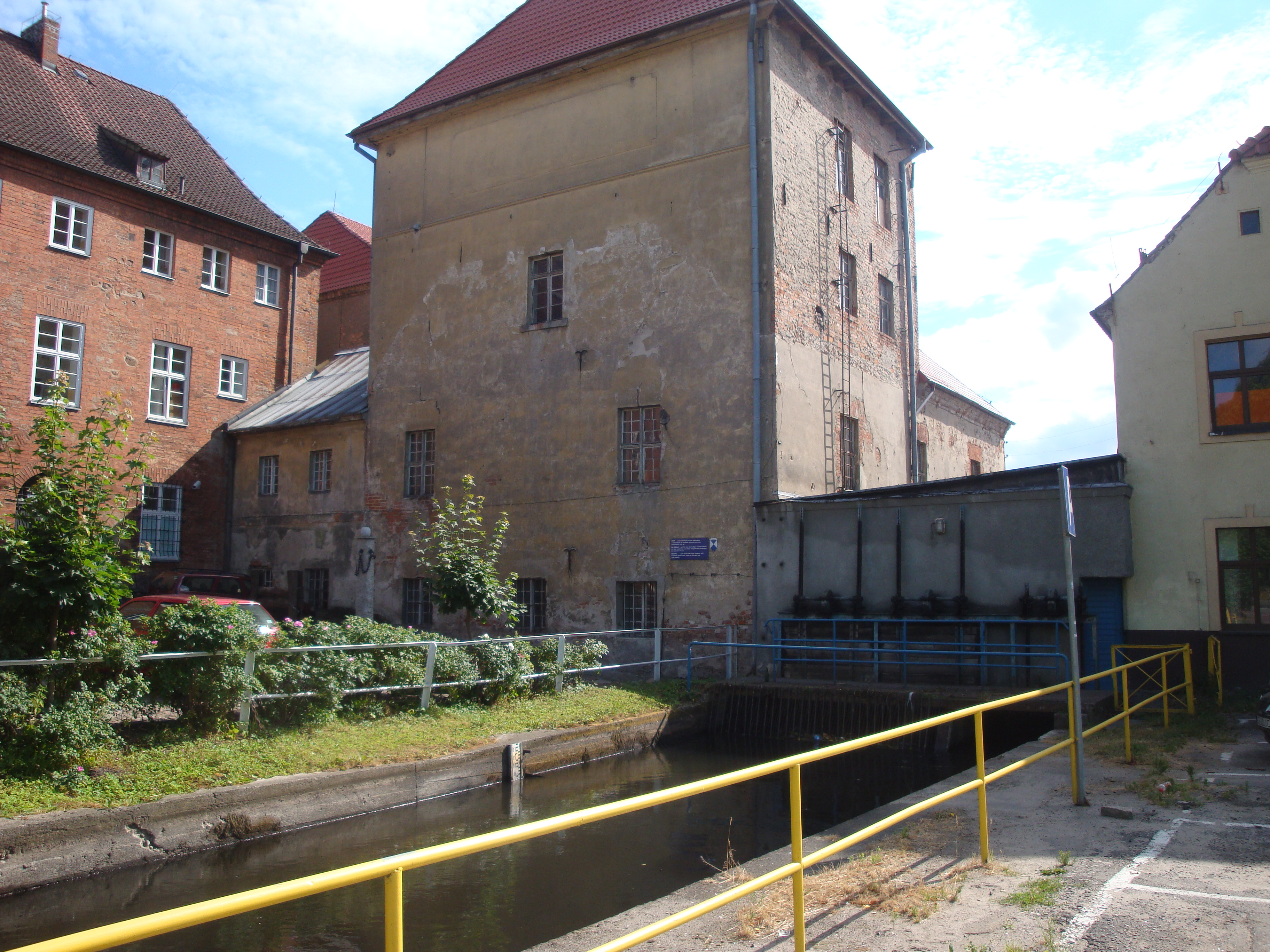 river Łeba in Lębork. Watermill, part of castle from 14th century